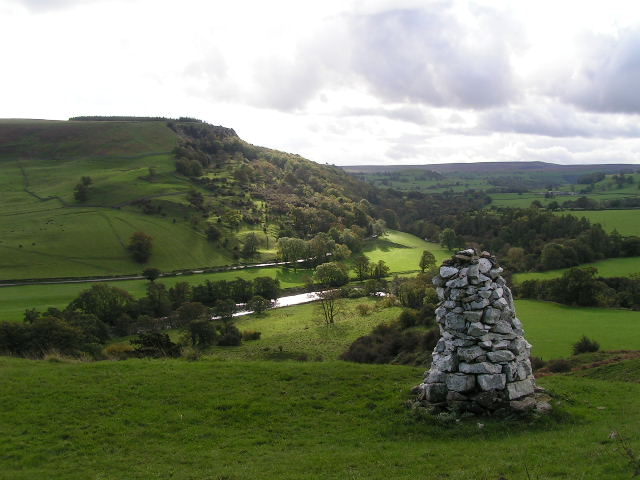 View from Applegarth Scar. The white-painted cairn marks the junction of a footpath from Marske (followed by the Coast-to-Coast path) with a bridleway that runs along the foot of Applegarth Scar. This is the view south-southwest over the River Swale to Thorpe Edge, Red Scar and West Wood.